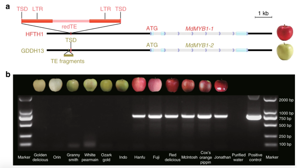 a. Molecular structure of MdMYB1-1 and MdMYB1-2 alleles with flanking sequences. The insertion sites upstream of MdMYB1-1 and MdMYB1-2 are indicated by a red line (HFTH1) and golden yellow line (GDDH13), respectively. b. Images of 12 well-known apple varieties with non-red or red skin colour (upper panel) and PCR-based screen showing the absence (right) or presence (left) of the LTR retrotransposon insertion in the upstream of MdMYB1. A 750 bp fragment corresponding to the partial of redTE that is absent in non-red-skinned varieties (lanes 1 to 6) and is present only in red-skinned varieties (lanes 7 to 12). Lane 13, control check (purified water was used as the template), Lane 14, positive control.